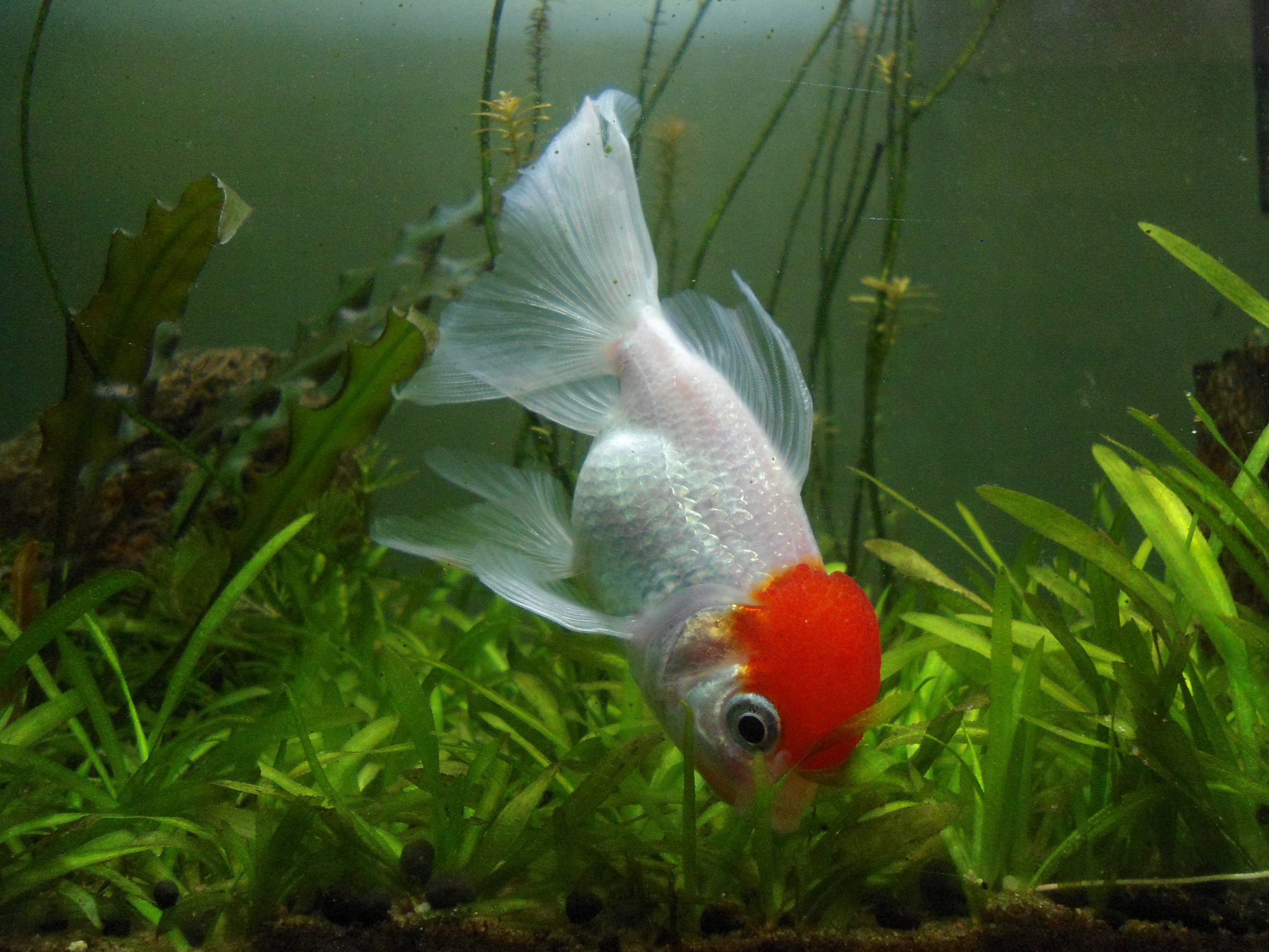 Carassius auratus Red cap Oranda at meenalokam aquarium, Indira Gandhi Zoological Park, Visakhapatnam, India